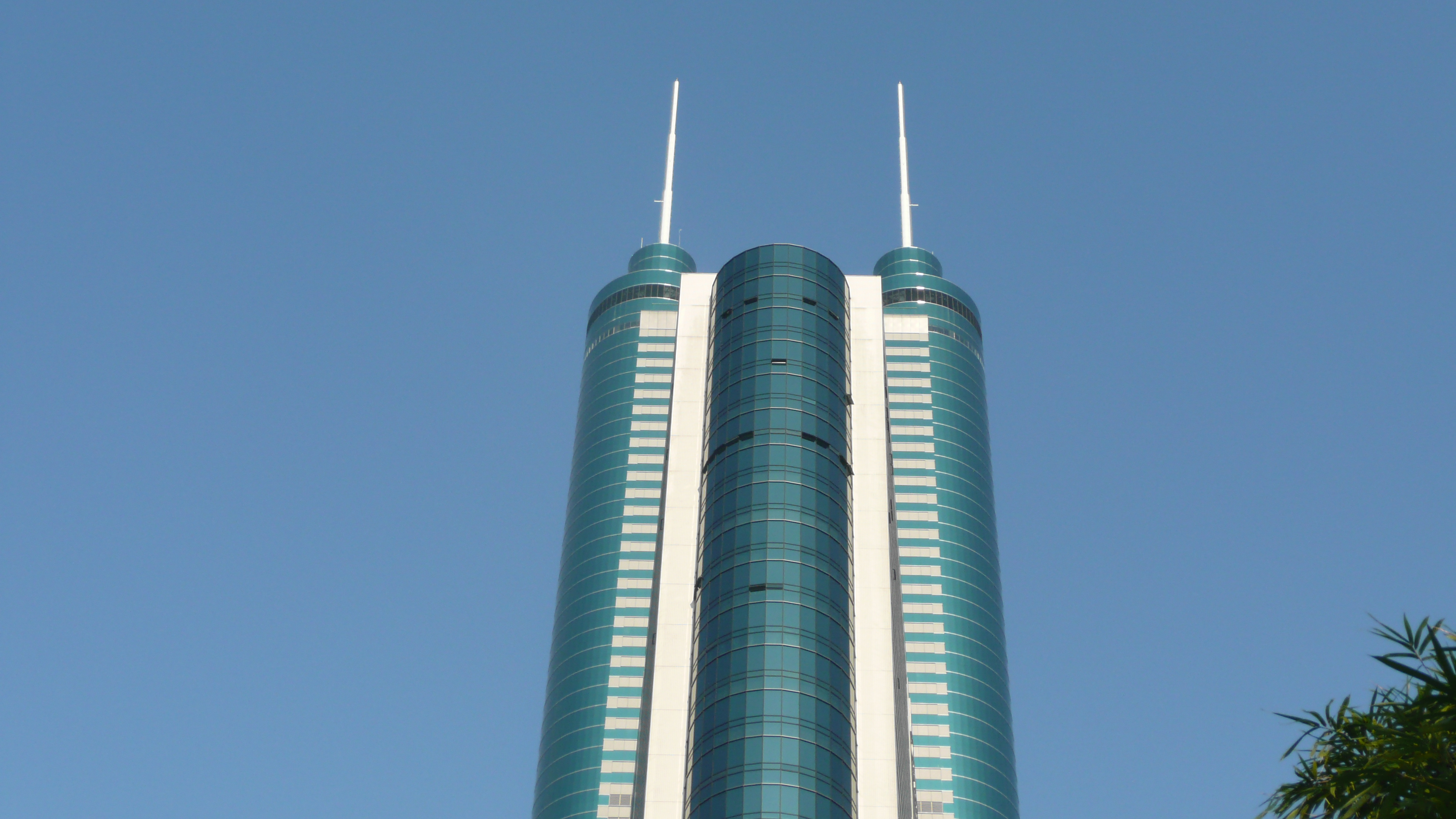 Diwang Dasha (Earth King Skyscraper) at the Shun Hing Square in Shenzhen